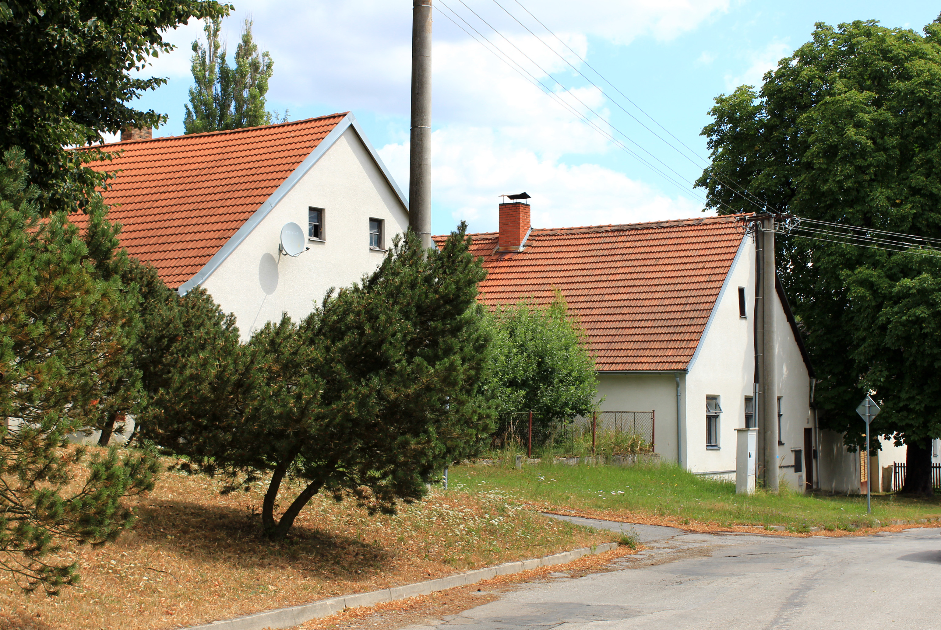 Common in Horní Skrýchov, Czech Republic.